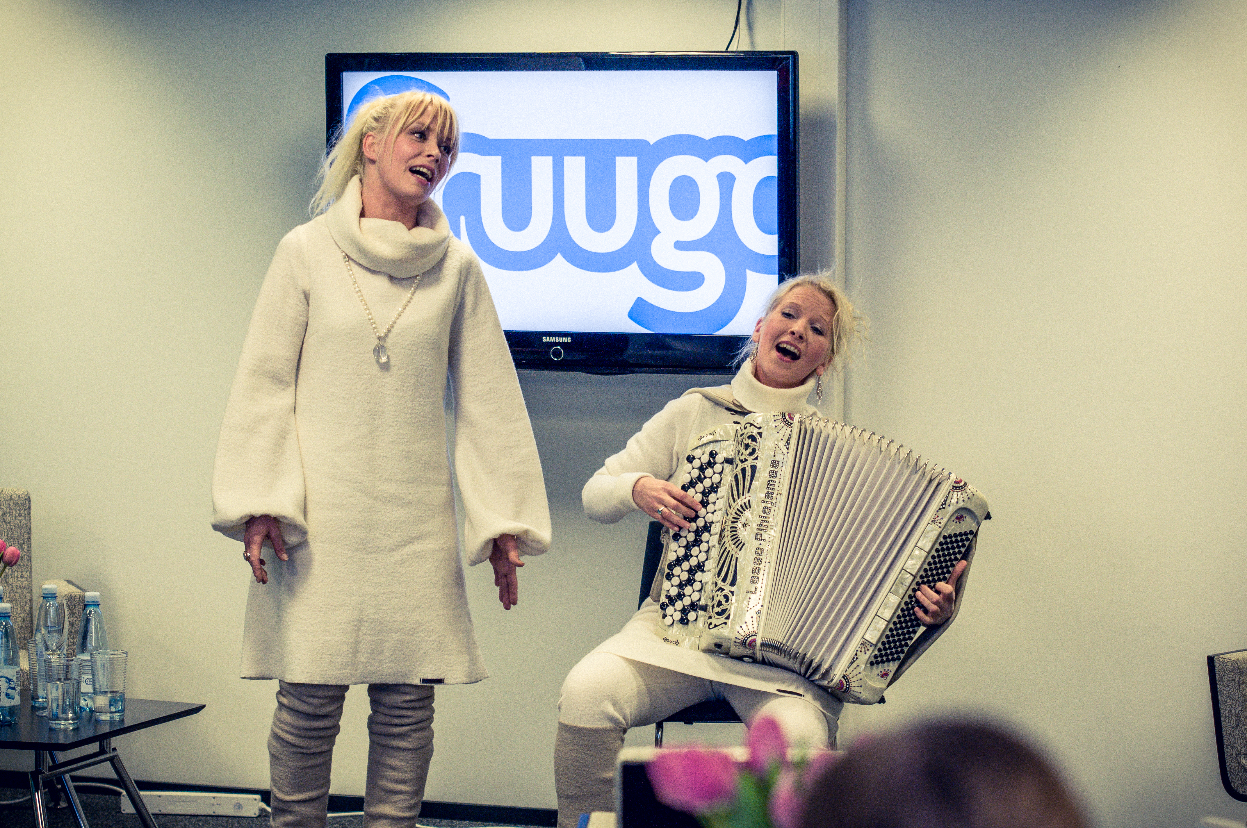 Kuunkuiskaajat at Fruugo + Lumene event at Helsinki, Finland